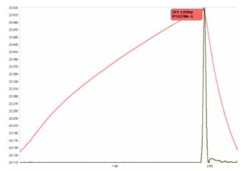 Fig. 13 Catalyzed endpoint thermometric titration of free fatty acids in tallow – hydroxyl catalyzed endothermic hydrolysis of paraformaldehyde (author:Lab Rat1941) Fig. 13 Catalyzed endpoint thermometric titration of free fatty acids in tallow – hydroxyl catalyzed endothermic hydrolysis of paraformaldehyde (author:Lab Rat1941)